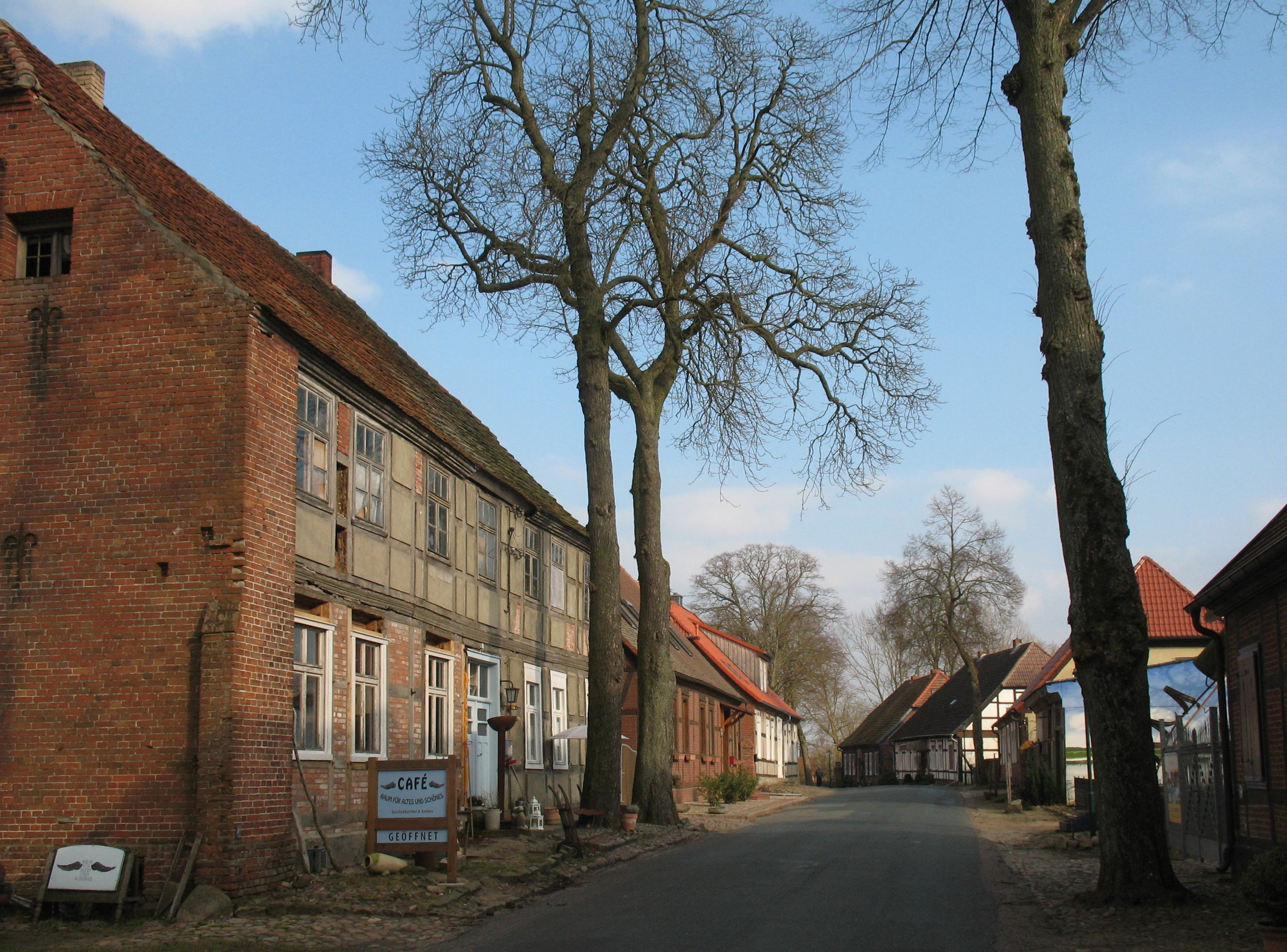 Kastanienallee in Lenzen in Brandenburg, Germany